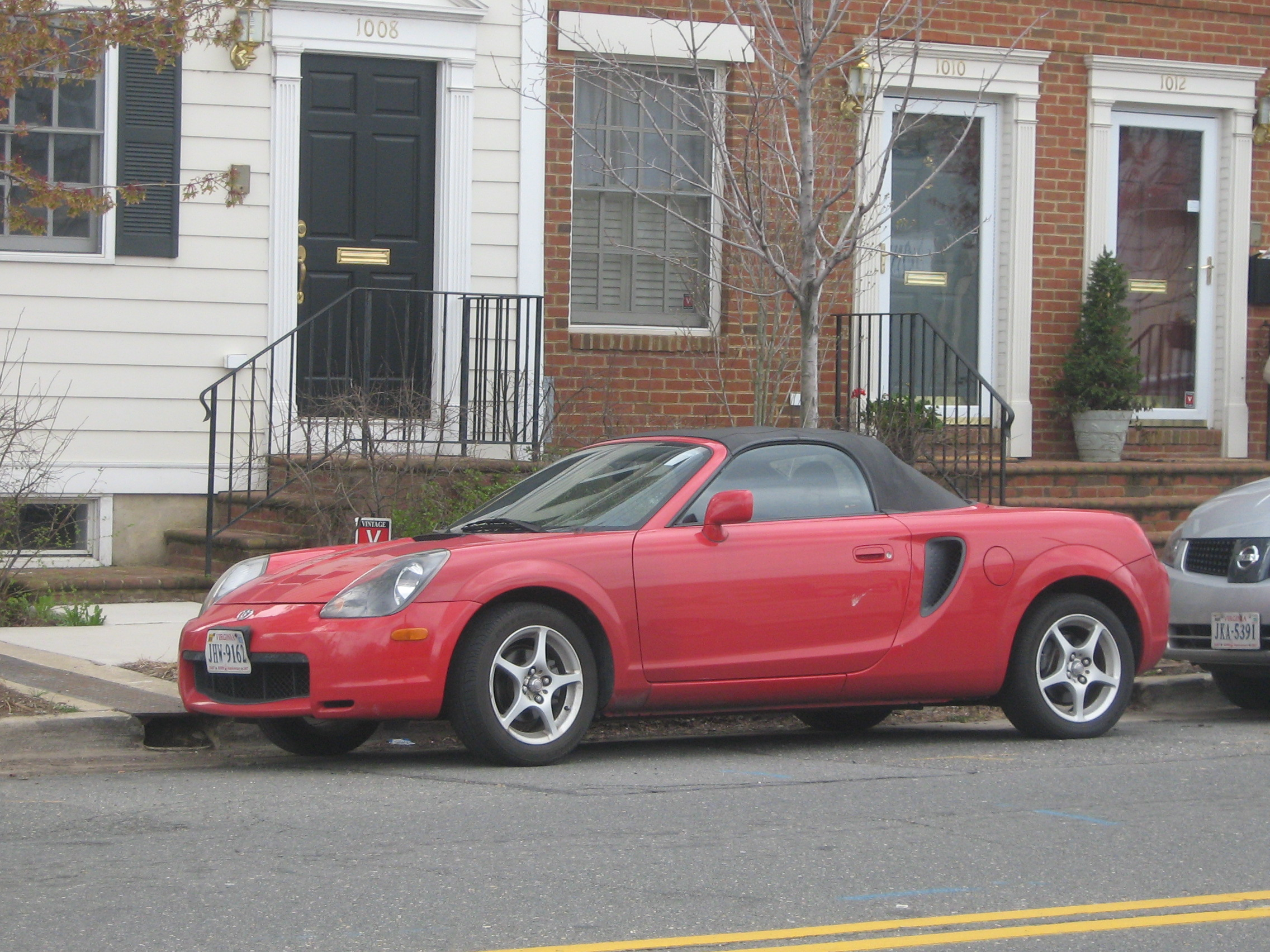 Toyota MR2 Spyder